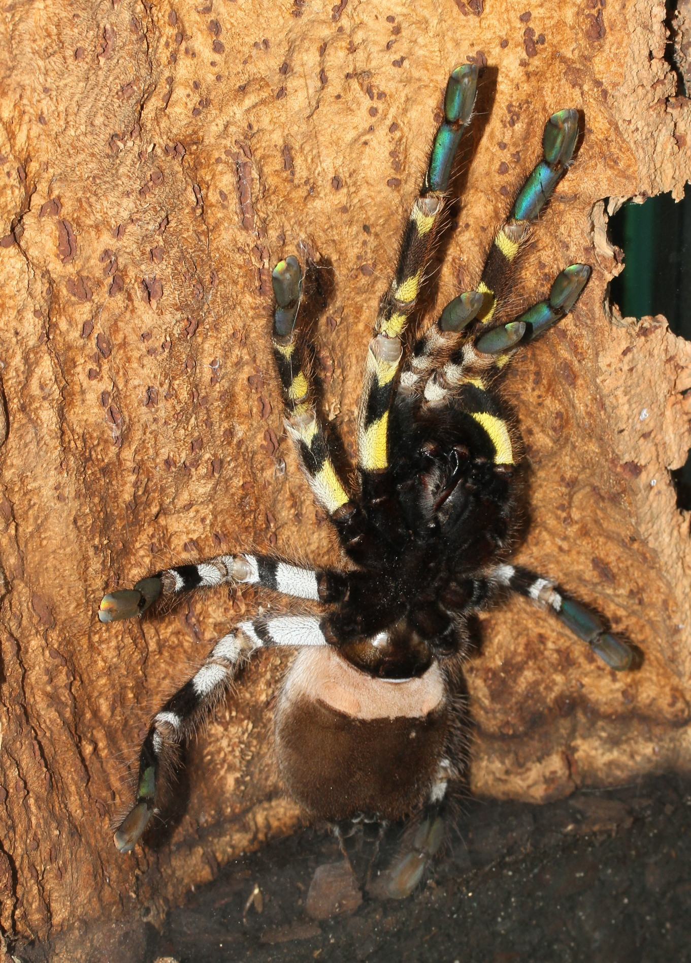 Poecilotheria regalis - ventral view taken at Cincinnati Zoo